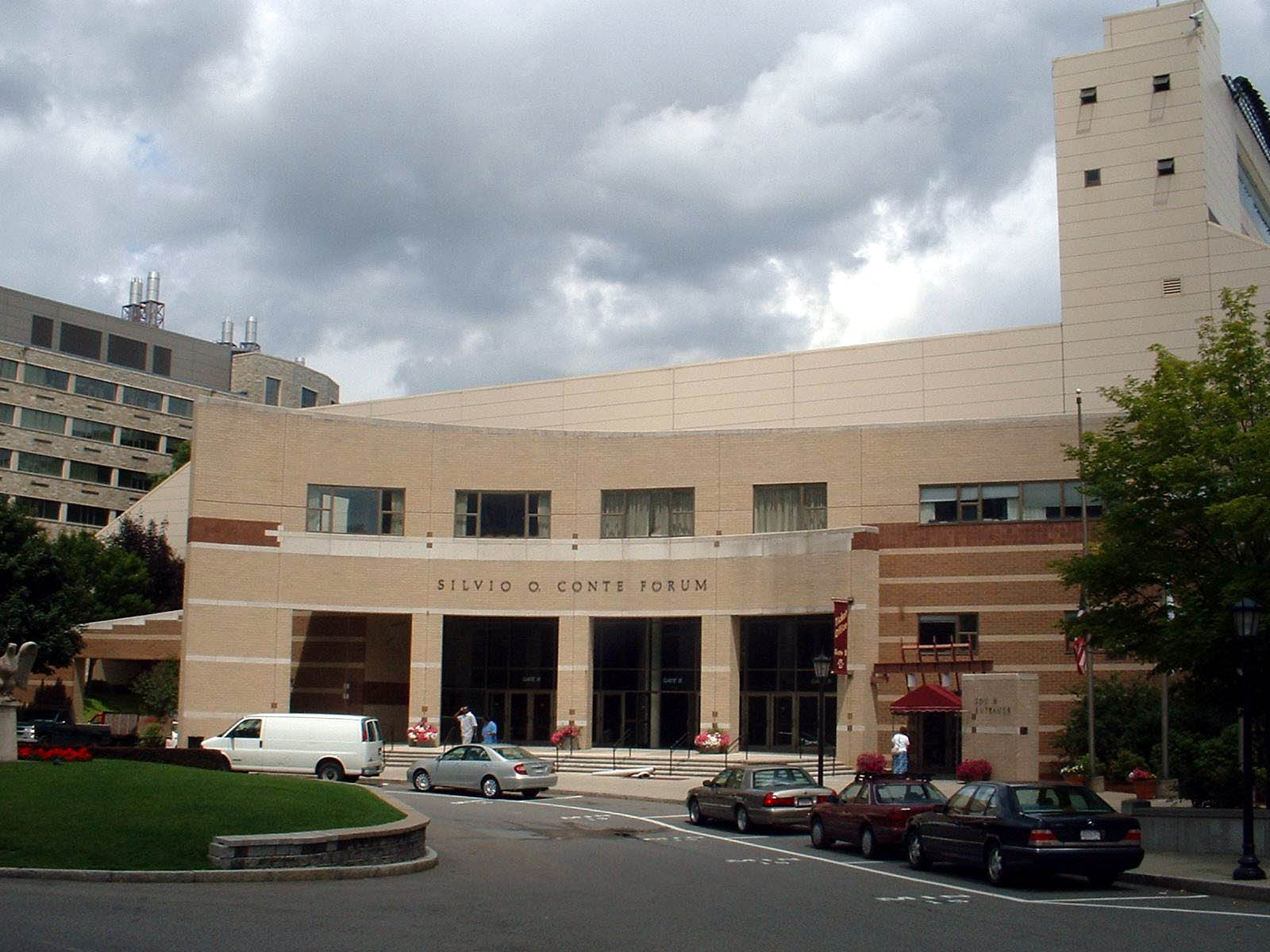 Main entry to Conte Forum at Boston College, Chestnut Hill, Mass. The press box of adjacent Alumni Stadium can be seen above, right.